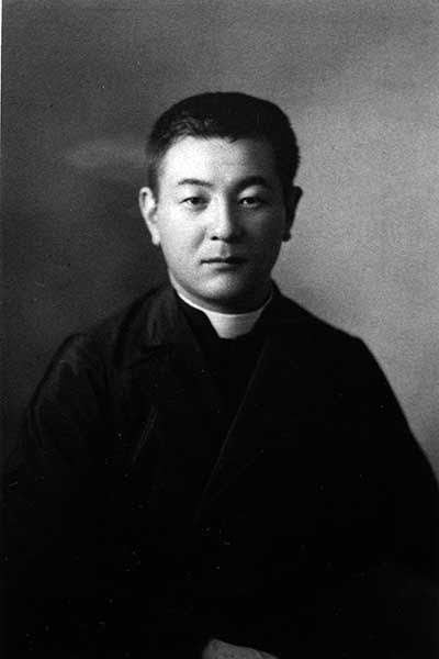 Roman Catholic Priest Todzuka Bunkei